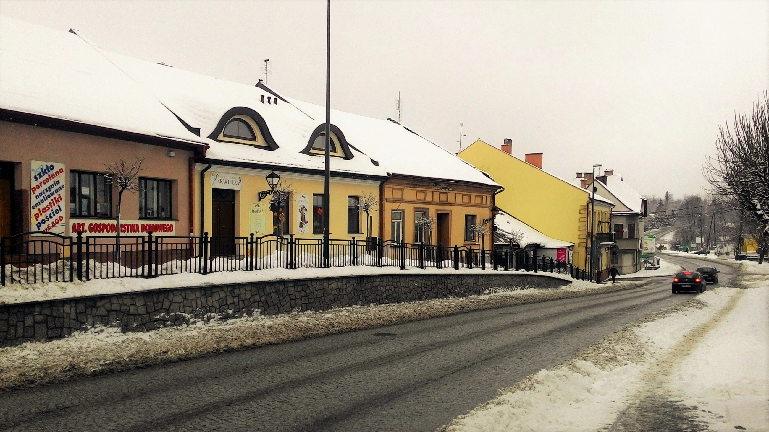 Old houses in Legionów Street in Pilzno, Poland.